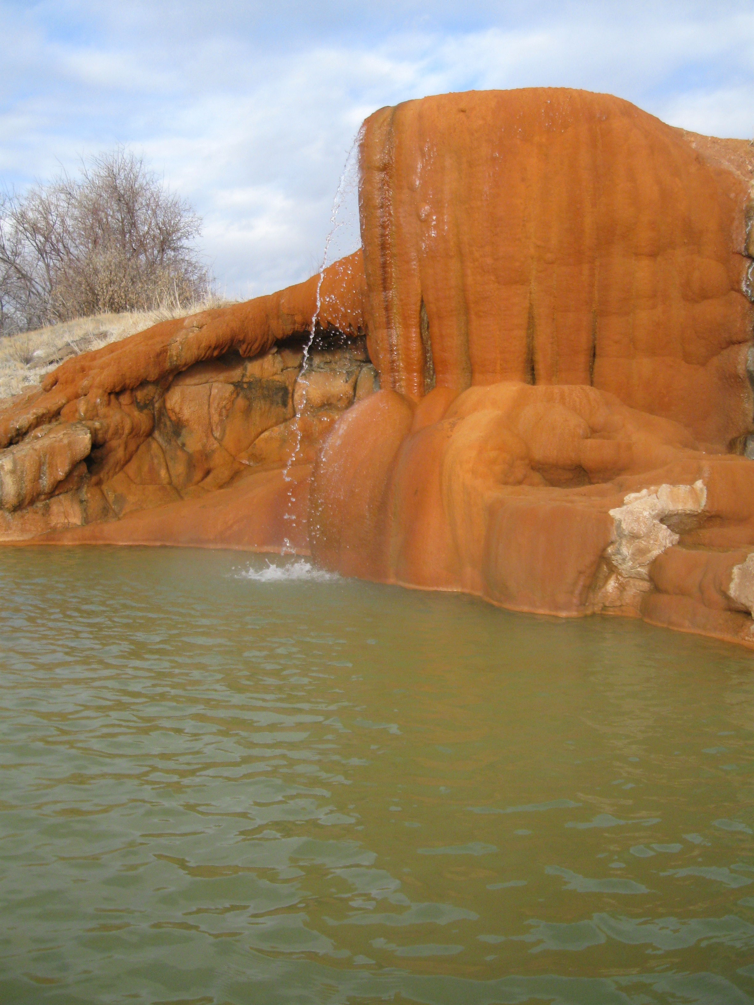 Pool at Mystic Hot Springs